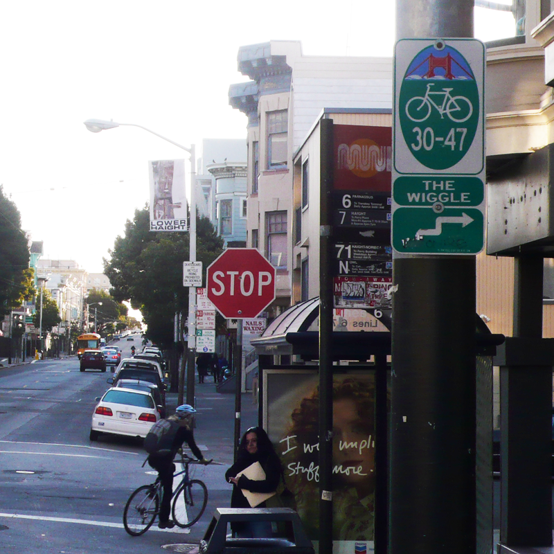 Photography: Street scene with a road sign indicating the Wiggle in San Francisco.